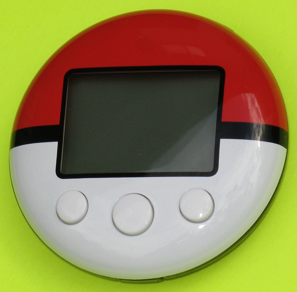 Photograph of the Pokéwalker accessory that comes bundled with the Pokémon HeartGold and SoulSilver games for Nintendo DS.